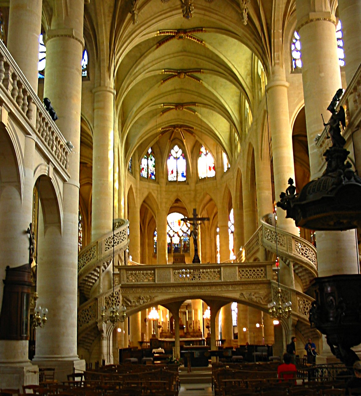 Interior of church Saint-Étienne-du-Mont in Paris